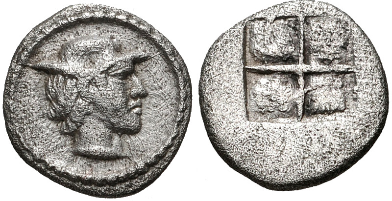 KINGS of MACEDON. Alexander I. 498-454 BC. AR Obol (8mm, 0.46 g). Struck circa 460-450 BC. Young male head right, wearing petasos